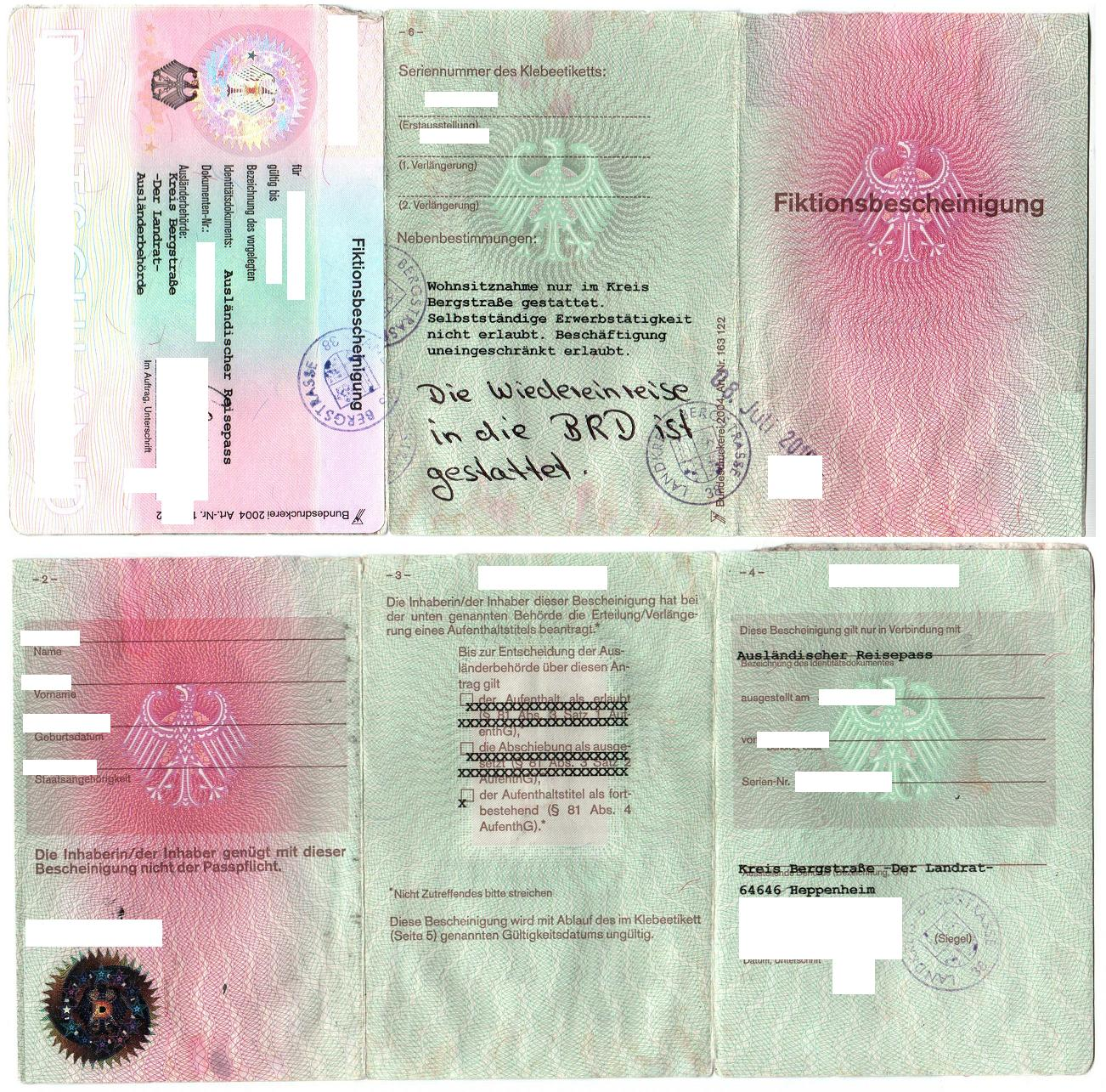 Completed form of a "Fiktionsbescheinigung" (provisional residence permit) in Germany. Personal informations are removed.